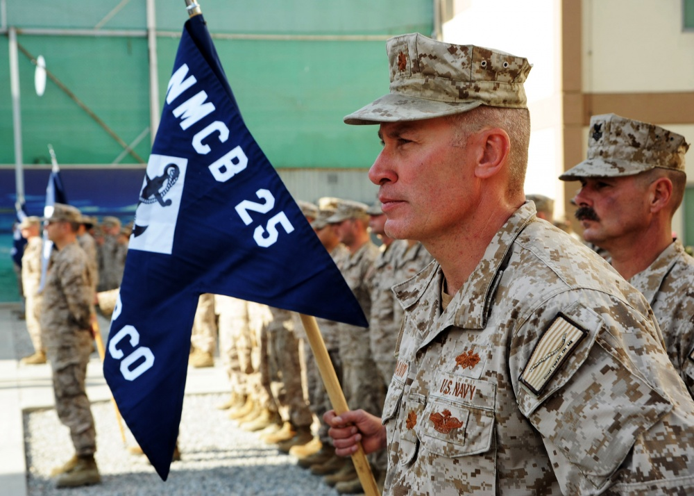 NMCB 25, Last CB out of Afgahanistan